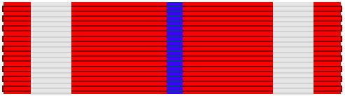 Datuk Patinggi Bintang Kenyalang (DP) of Most Honourable Order of the Star of Hornbill - Knight Grand Commander lint uit 1973 Sarawak